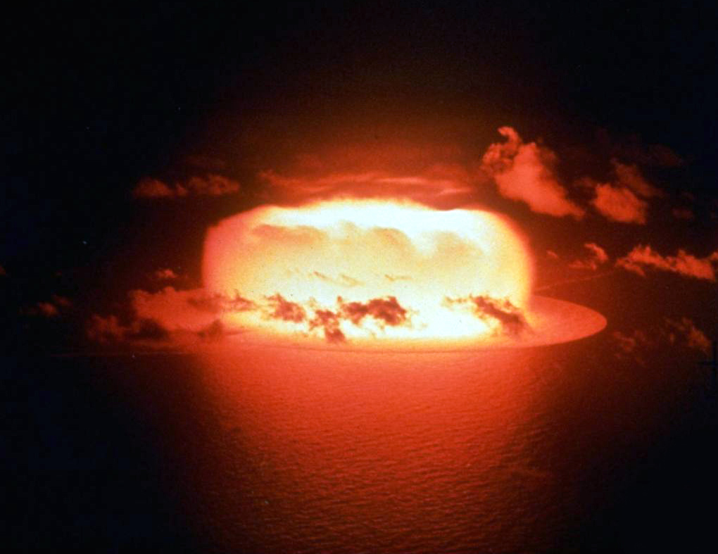 Operation Redwing - Erie shot.